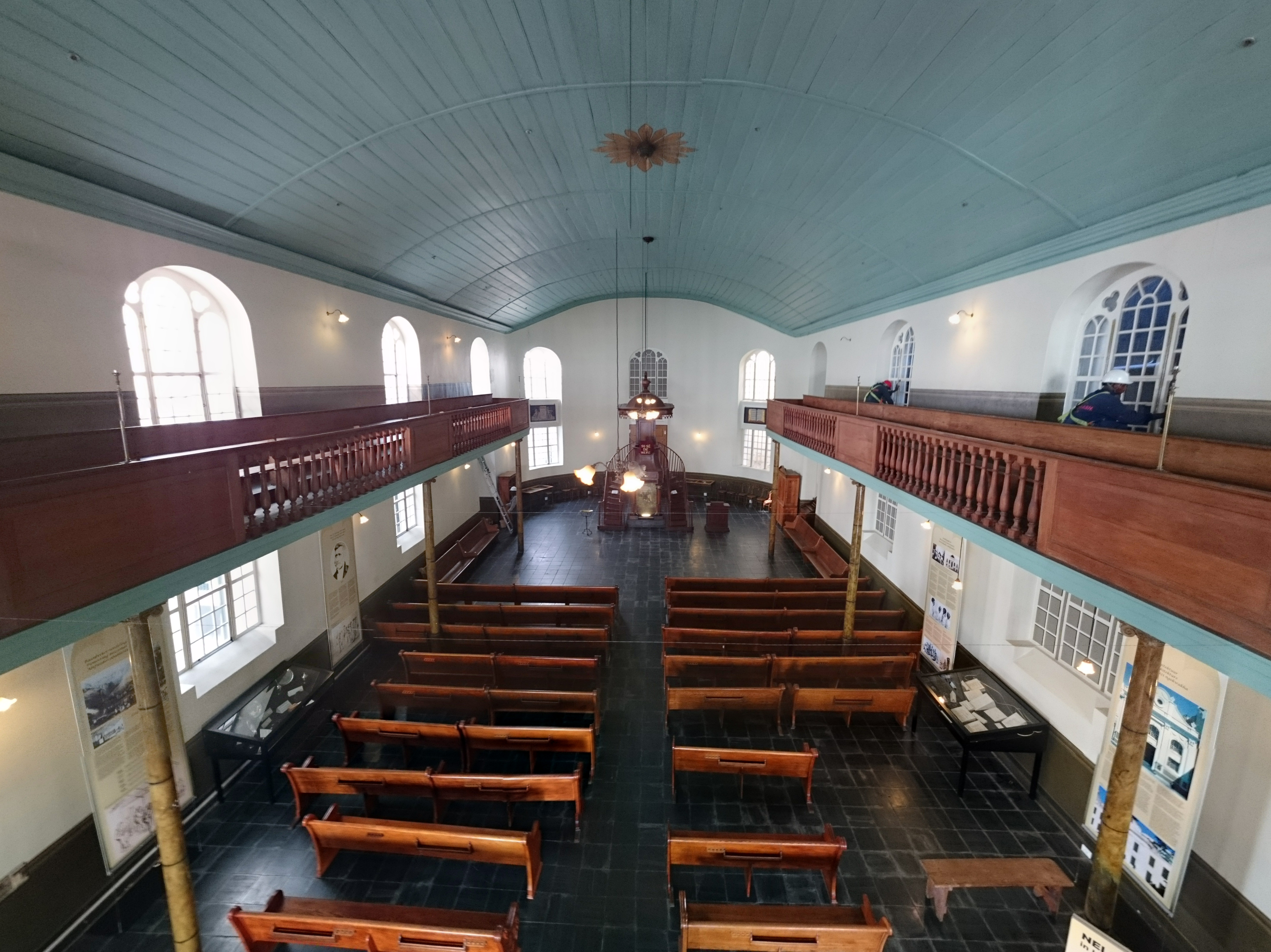 Sendinggestig Museum panorama